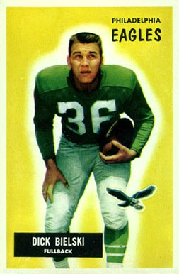 American football player Dick Bielski on a 1955 Bowman card.